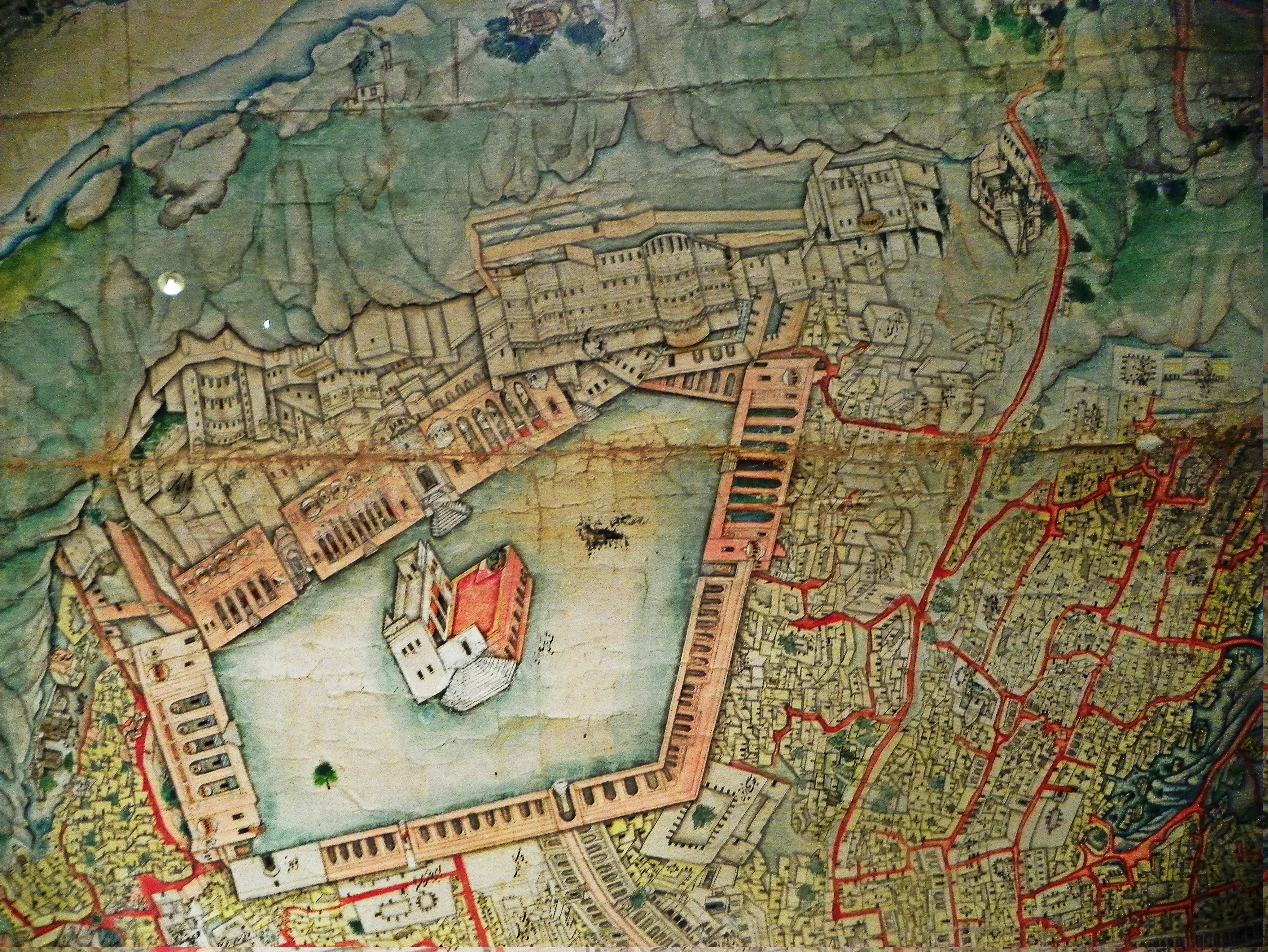 The Map of Jammu City. Company period, Punjab, circa A.D. 1880-90; cloth pasted on paper, 128 x 208 cm The building of the city of Jammu and the Bahu Fort are linked to a legend. Raja Jambu Lochan, when on a hunting trip, witnessed a curious scene of a tiger and a goat drinking water side by side at the same location in the Tawi River, without the tiger attacking. The Raja considered this a divine direction to establish his new capital here, as the scene he witnessed at this site represented peaceful coexistence. His brother, Bahu Lochan, is credited with building the fort. 2015in01-3dlmz_101fltr